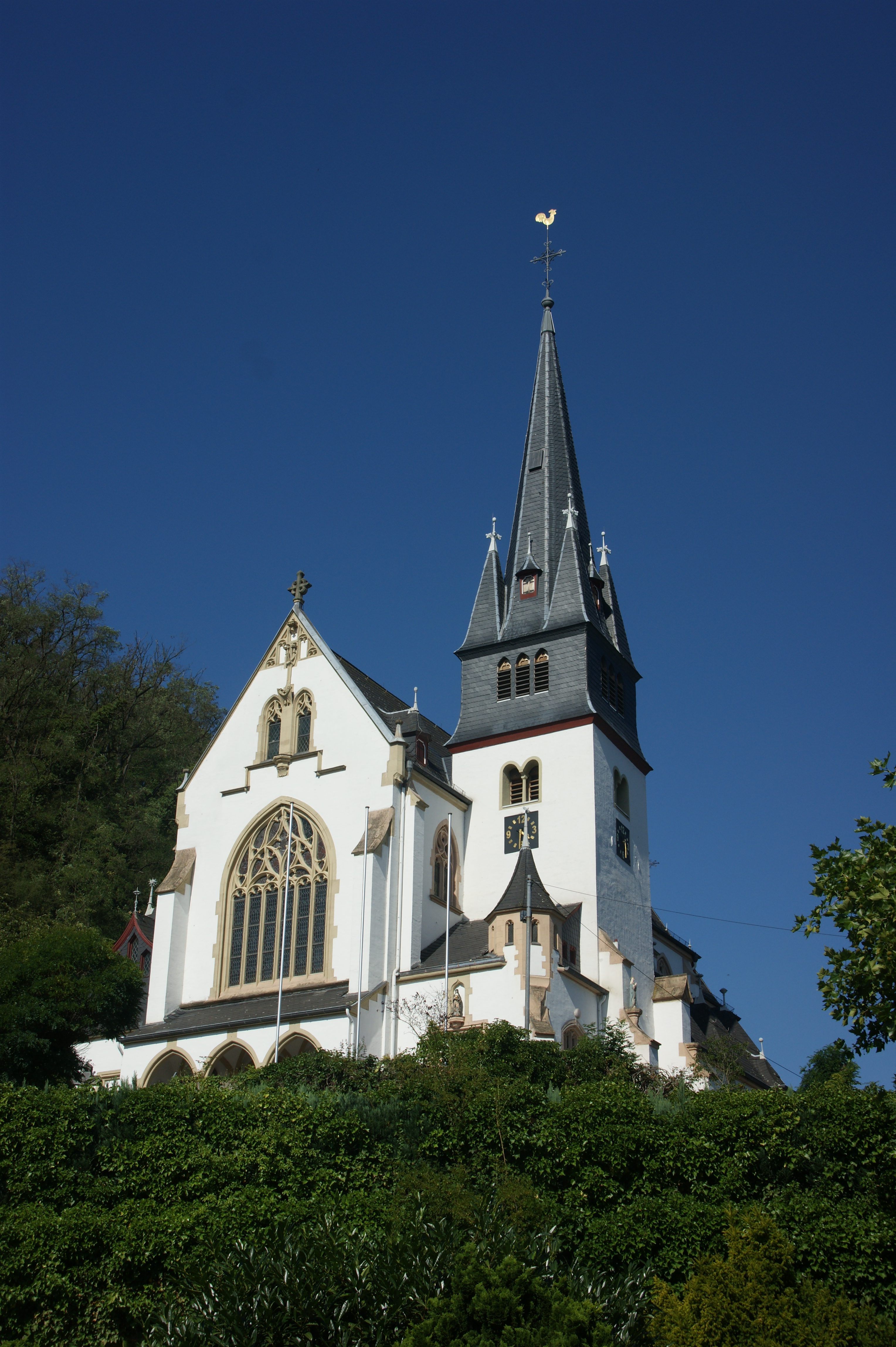 Church Sankt Walburgis in Leubsdorf